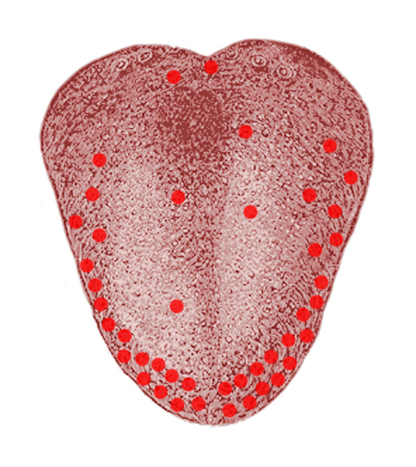 Human tongue, taste buds for sweet are marked